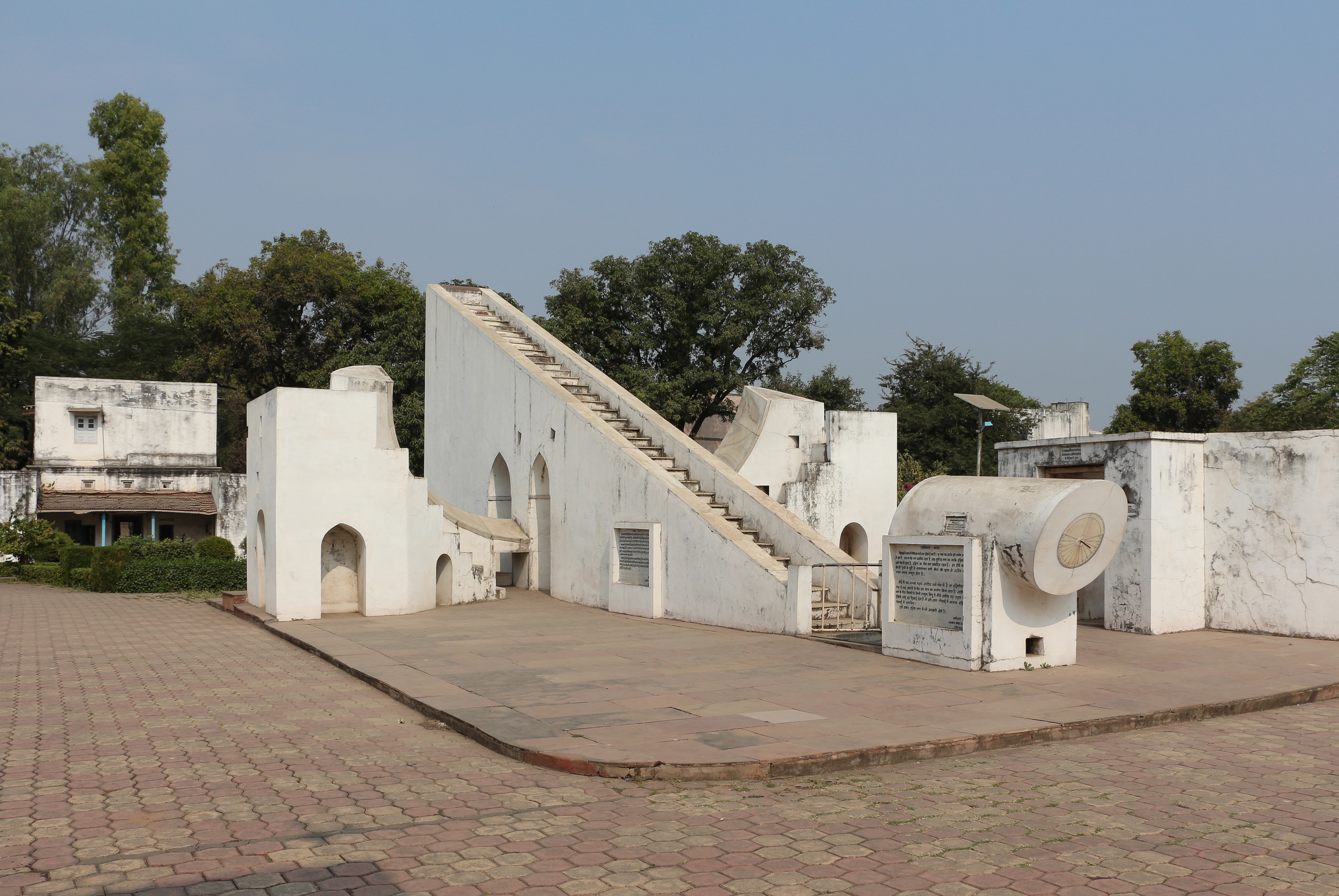 The Samrata Yantra of the Vedh Shala, Ujjain, India